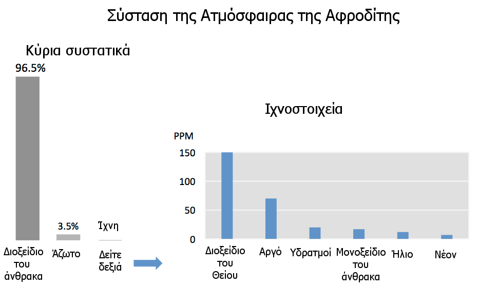 Translation of File:Atmosphere of venus.png to Greek